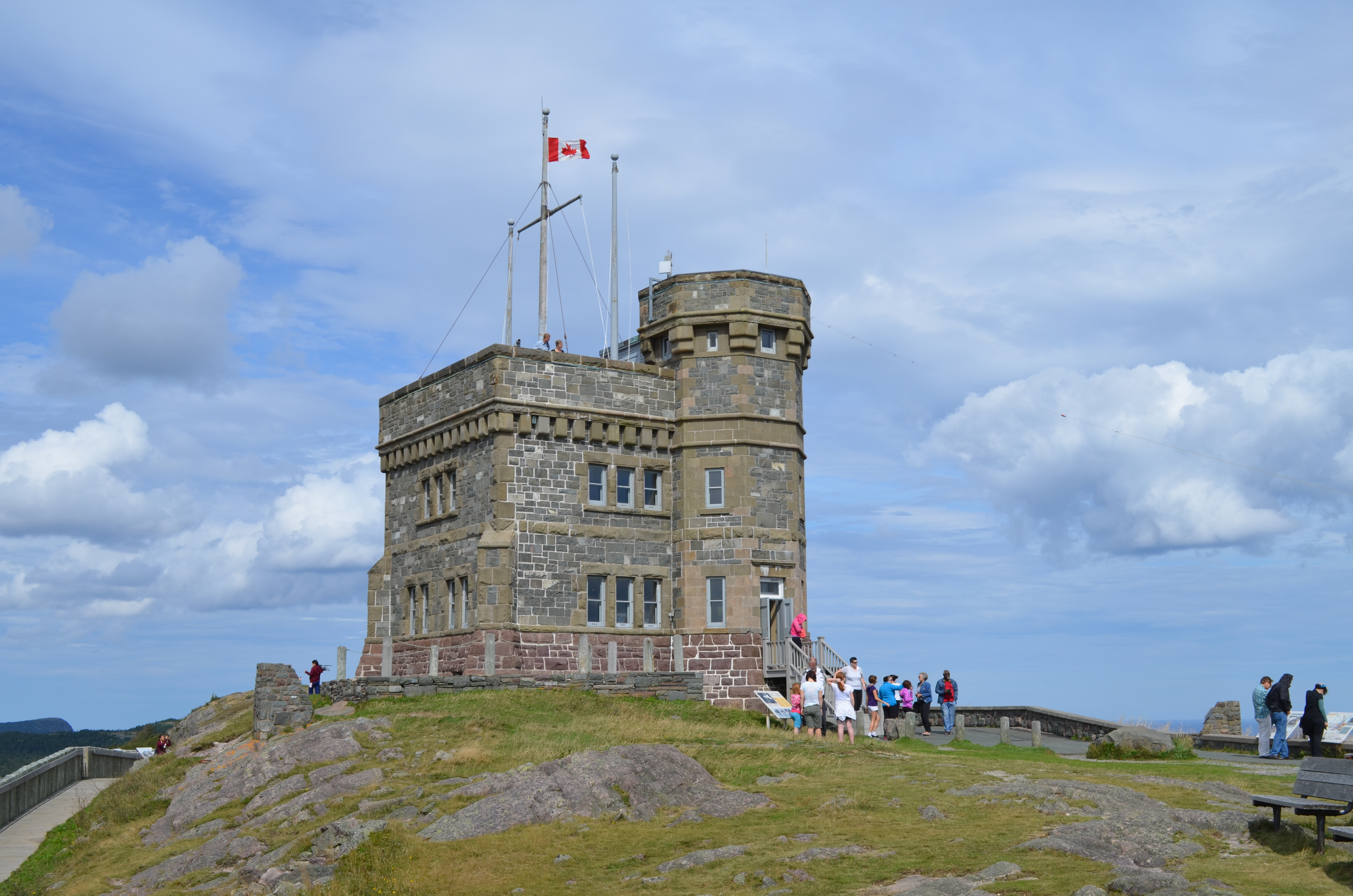 Cabot Tower at Signal Hill, St. John's, NL